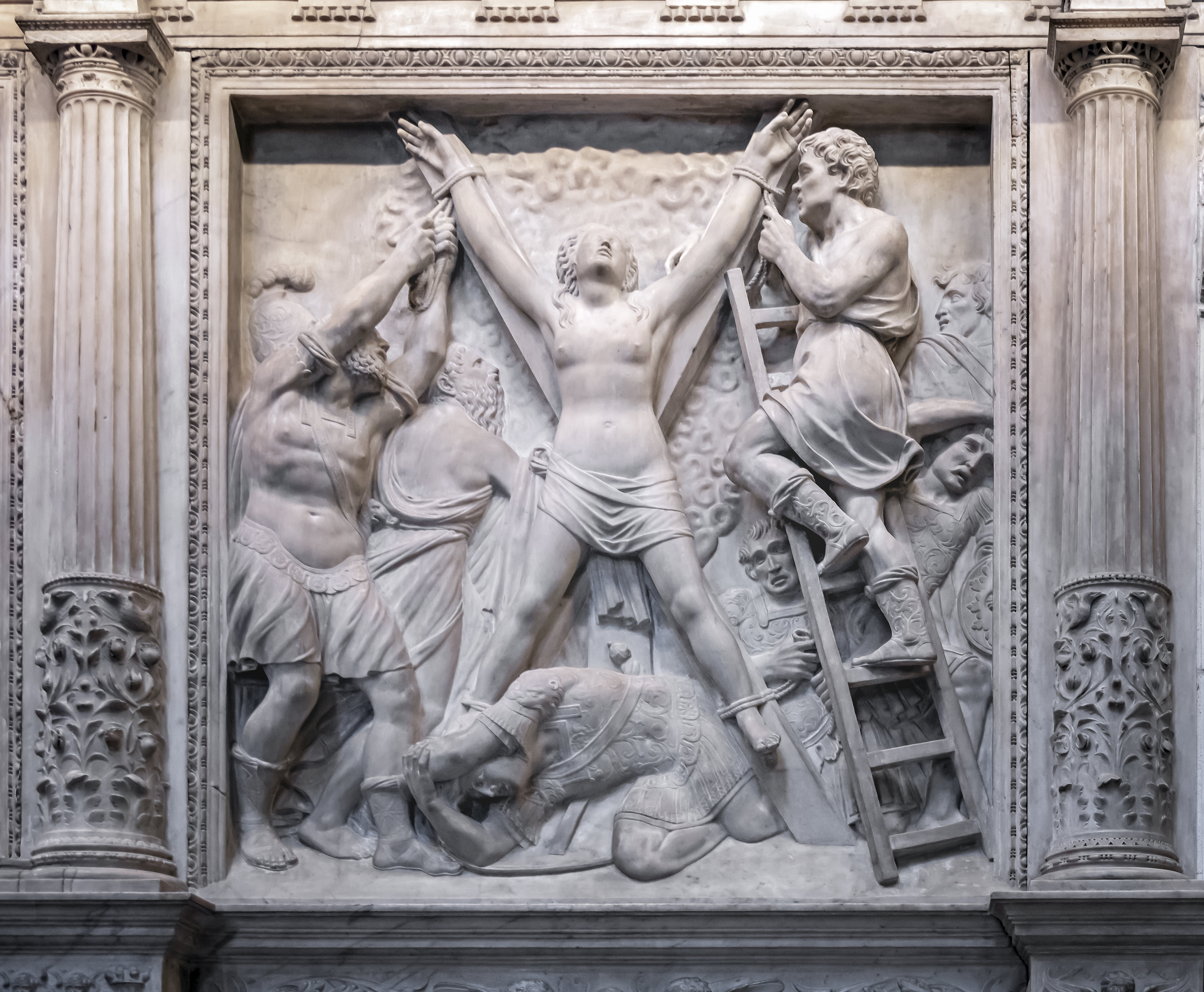 Depicted person: Eulalia of Barcelona – Spanish saint